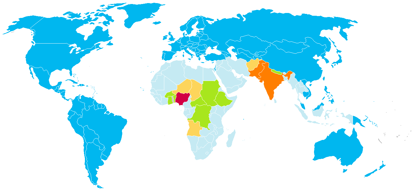 World map representing the incidence of poliomyelitis (wild virus) according to the WHO's Weekly Epidemiological Record (WER) on November 21st, 2008, vol. 83, 47 (pp 421–428)♦ 500 to 1000 confirmed cases♦ 100 to 499 confirmed cases♦ 10 to 99 confirmed cases♦ Less than 10 confirmed cases♦ No wild virus♦ Poliovirus officially eradicated